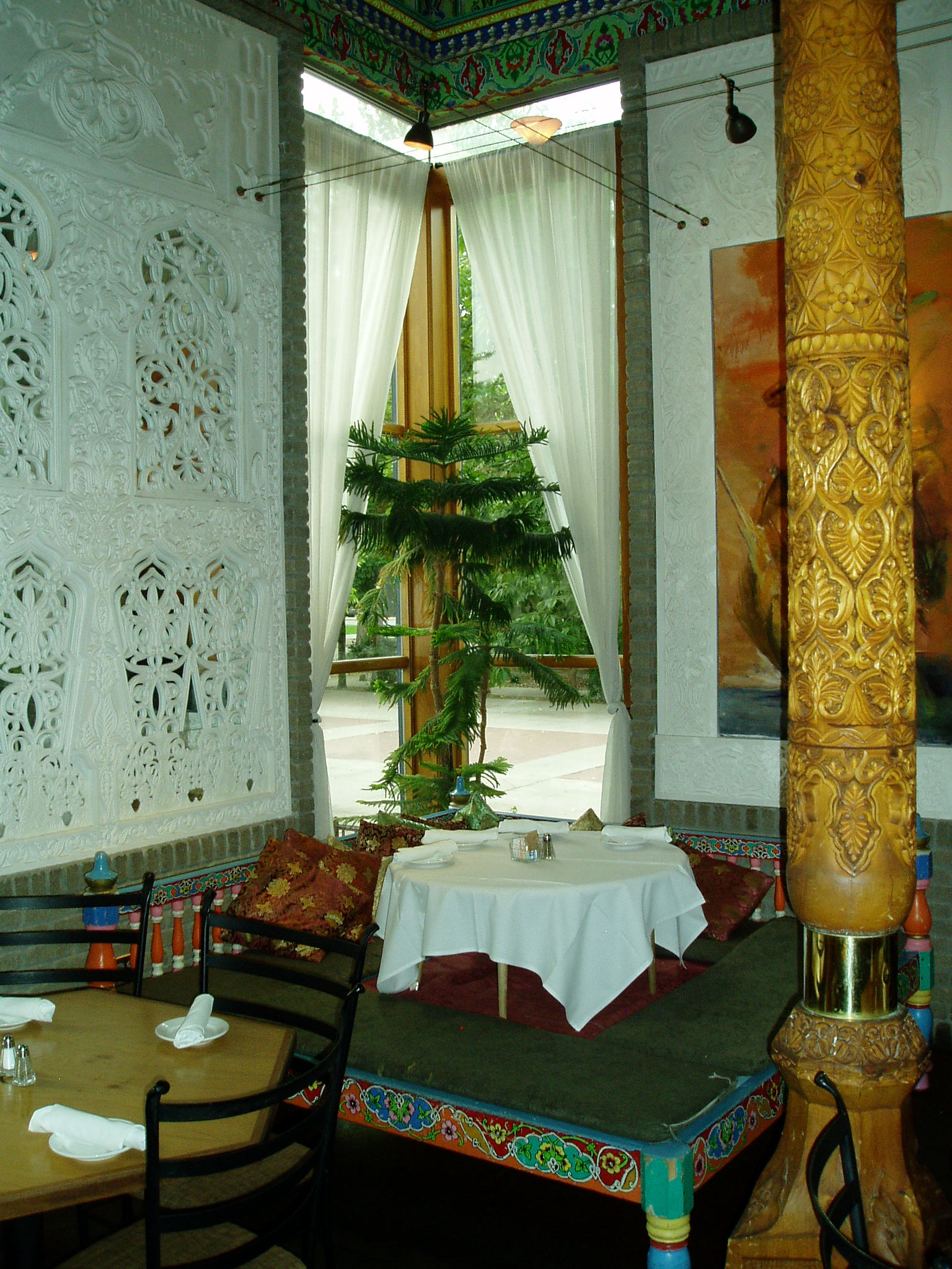 Dushanbe Tea House, Boulder, Colorado. A low table with cushions instead of chairs for seating. An ornately decorated column can be seen in the foreground.